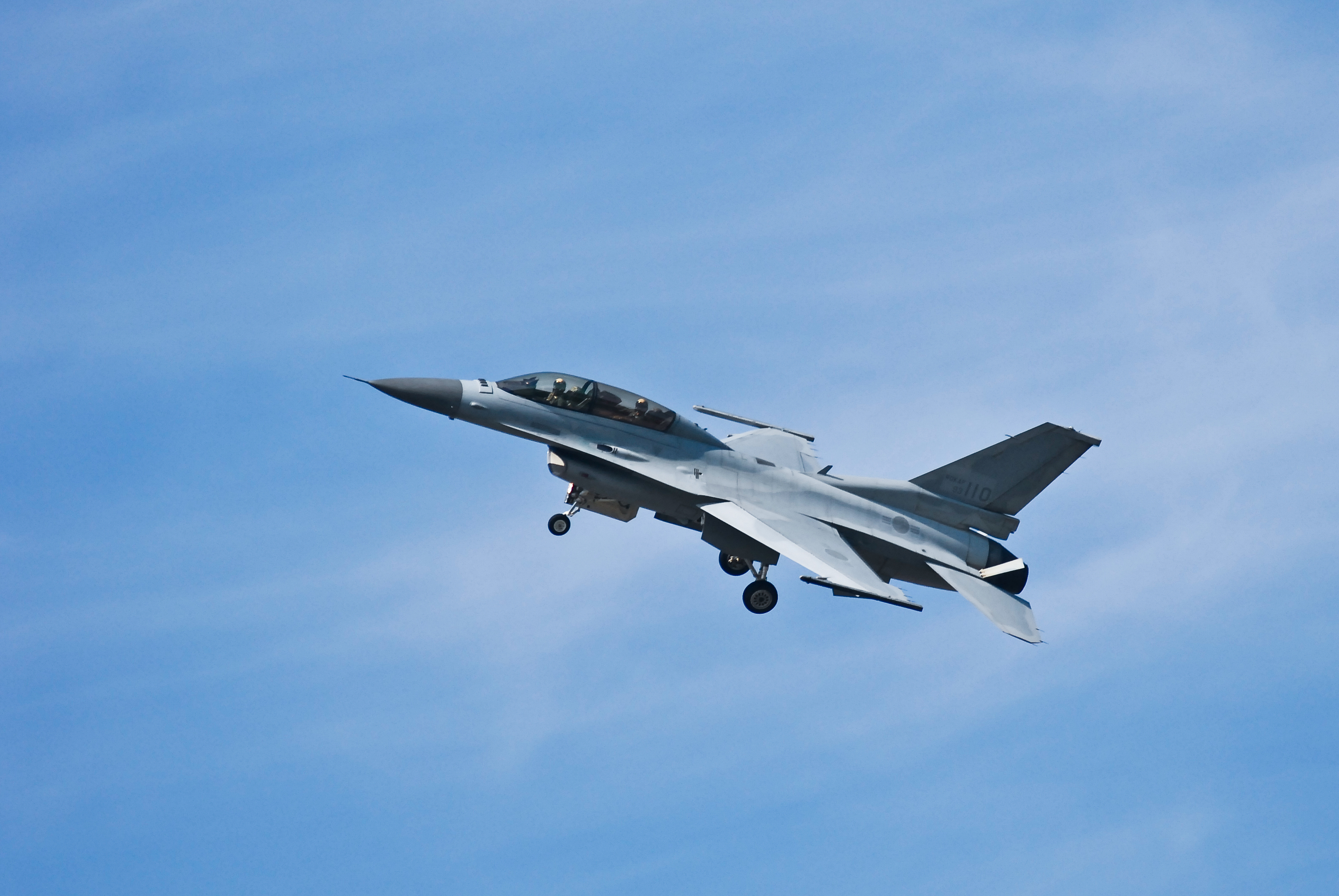 KF-16D High AOA (Angle of Attack), Low-altitude, Low-airspeed demo flight